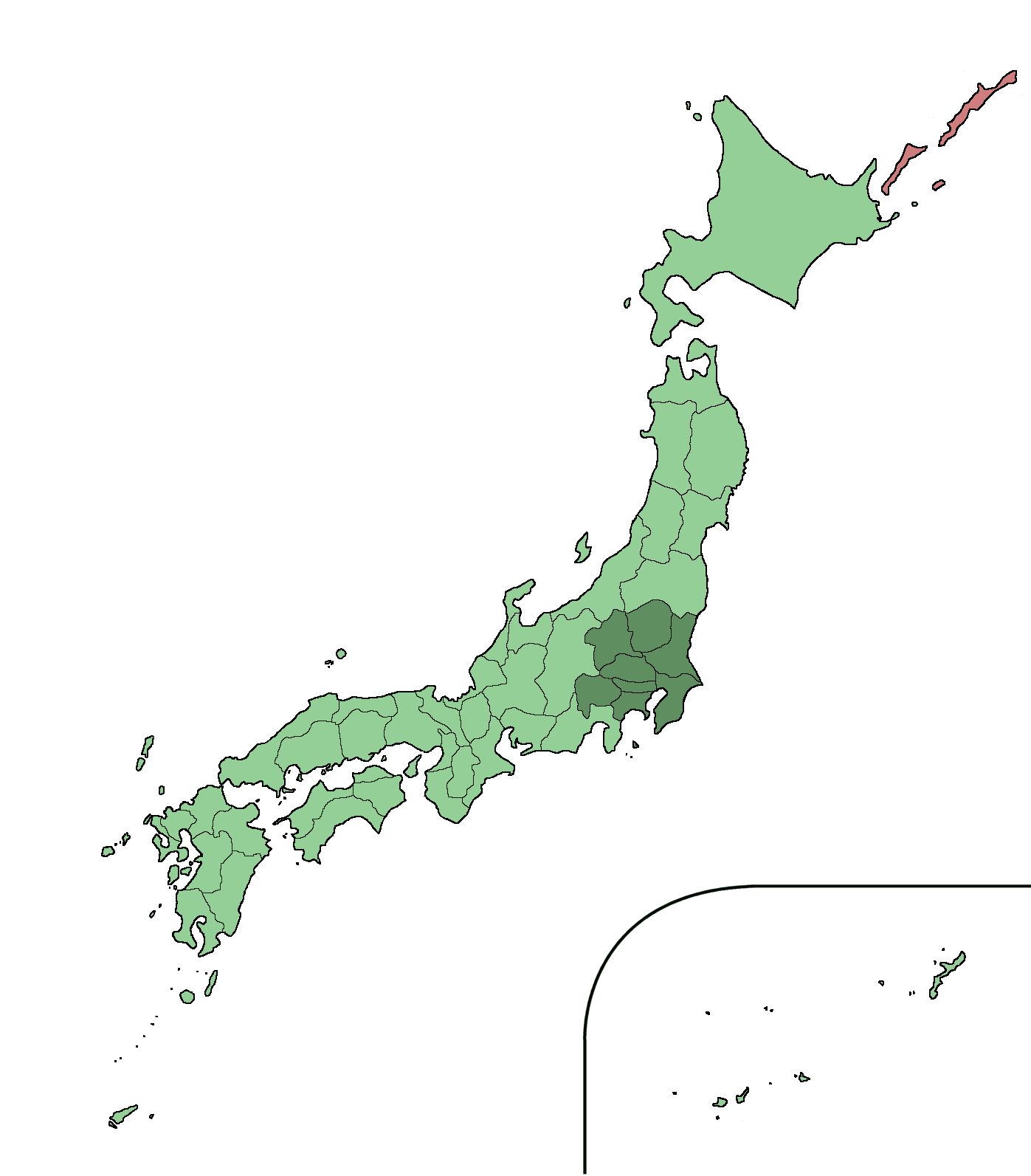 Greater Tokyo Area